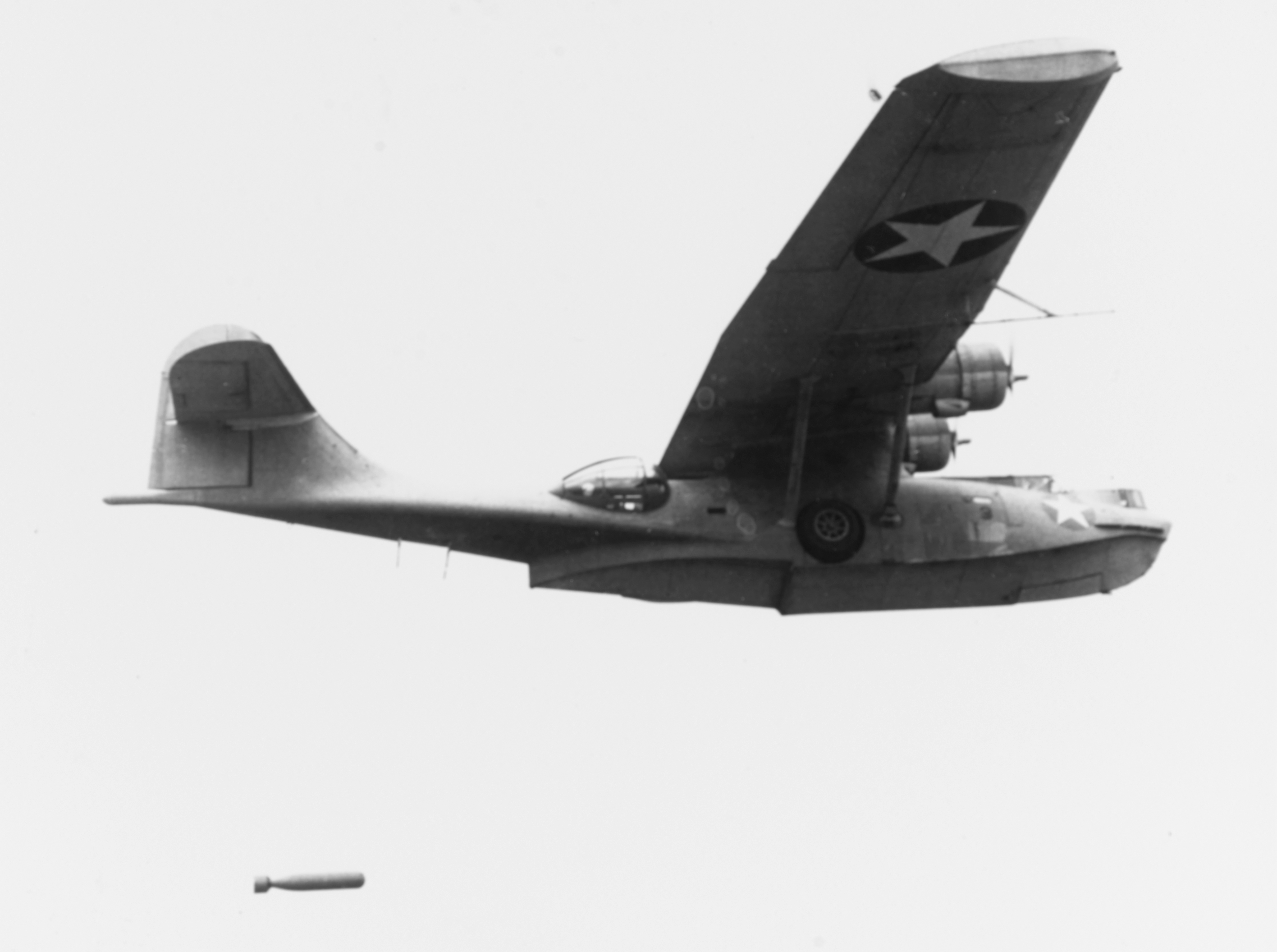 A U.S. Navy Consolidated PBY-5A Catalina patrol plane streaming a magnetic anomaly detection ("MAD") "Bird", 29 May 1943. The plane appears to also have a "MAD" boom in her tail.